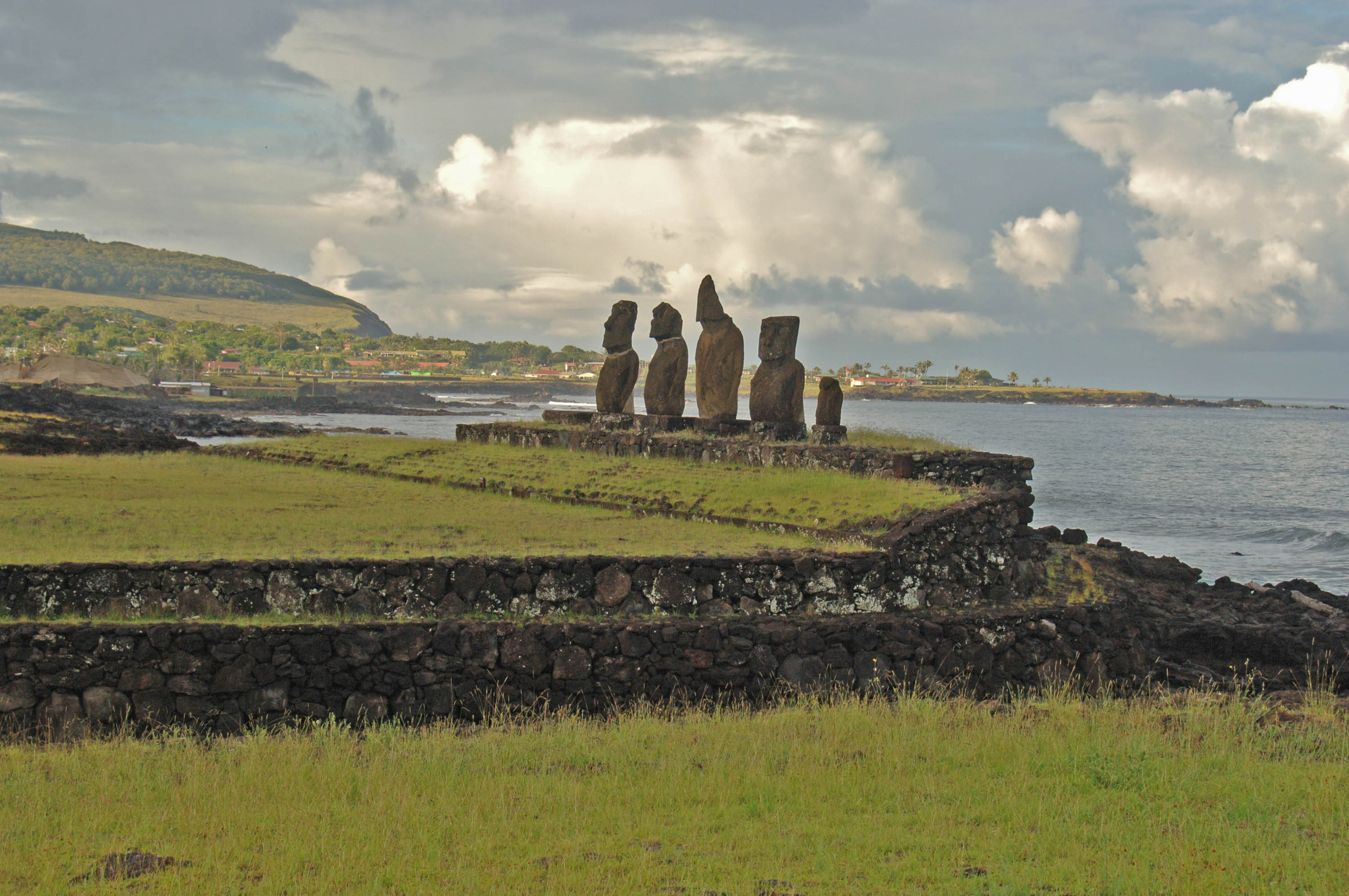 THIS AHU IN NEAR HANGA ROA, THE CAPITAL OF EASTER ISLAND